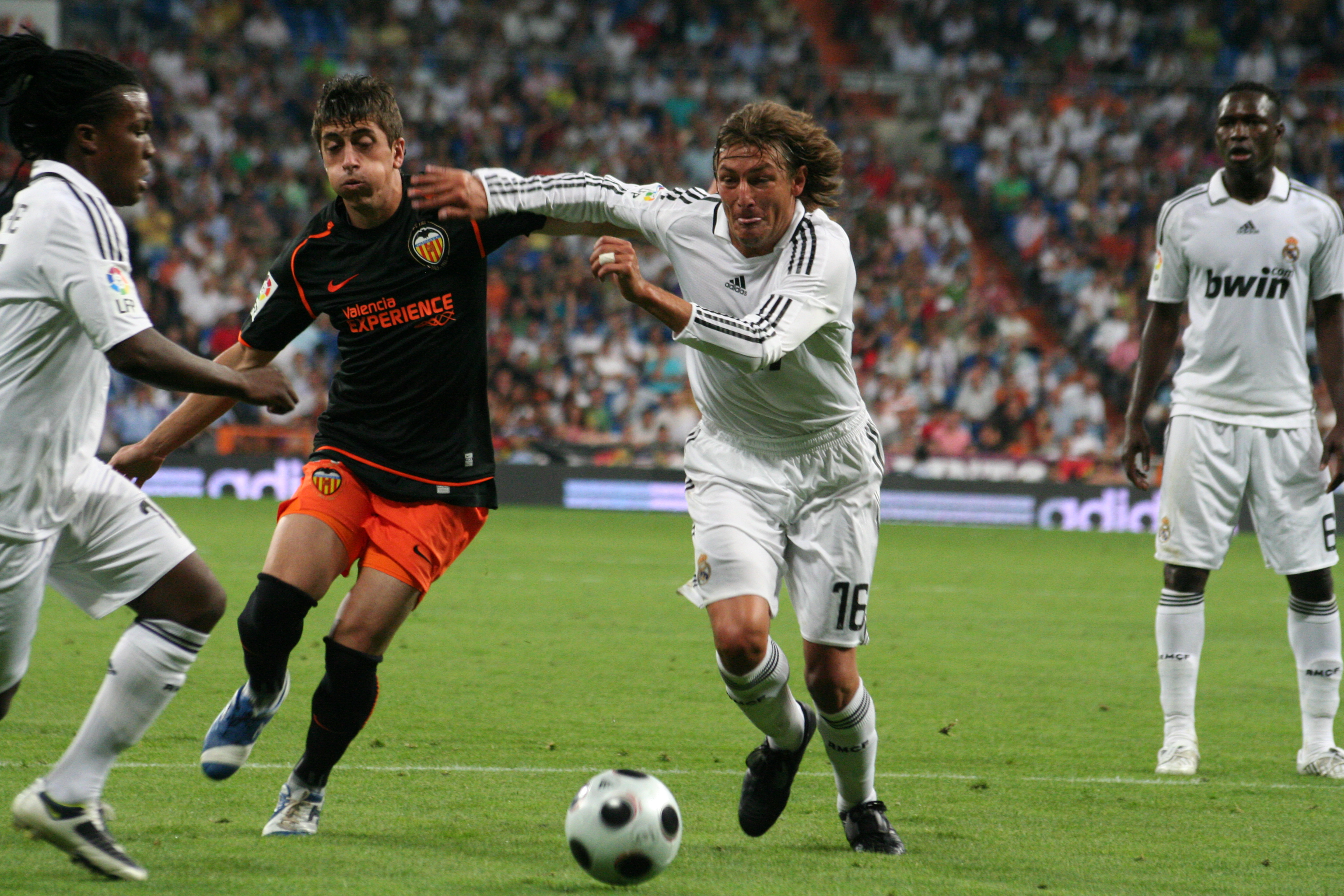 Heinze in a match against Valencia in 2008 Spanish Supercup.